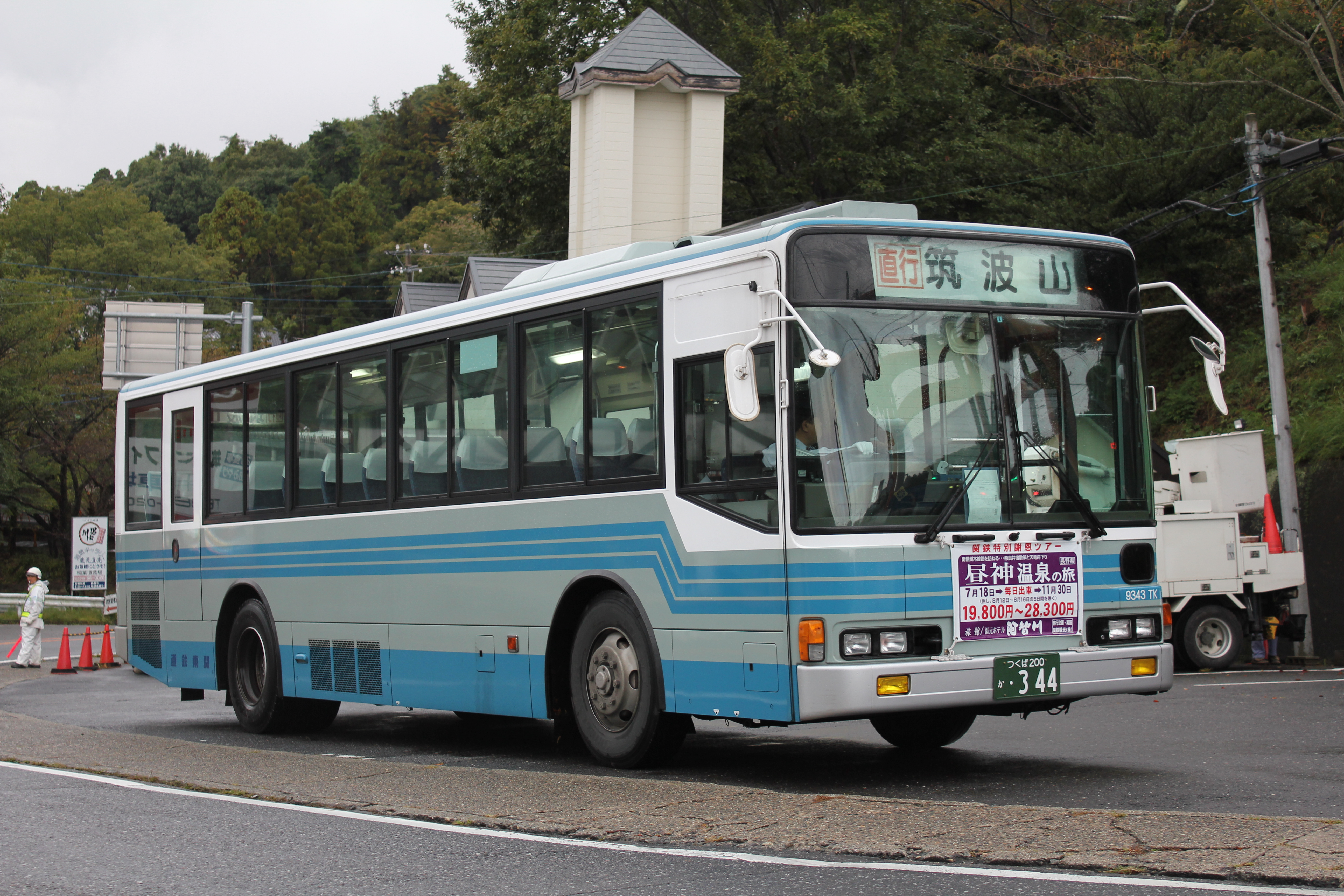 Mitsubishi Fuso Aerostar owned by Kanto Railway at Tsukubasan Shrine